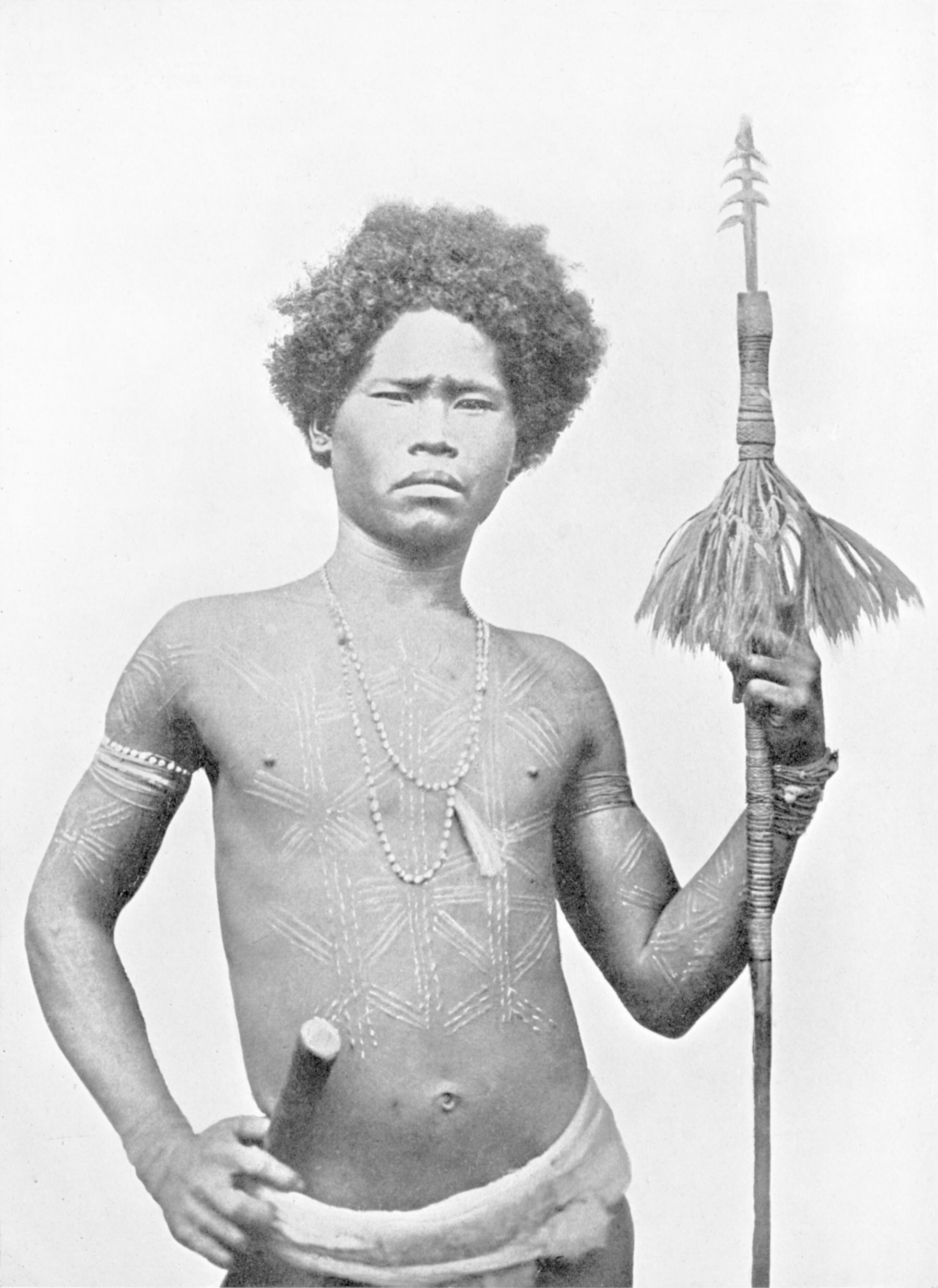 From Dr. A. B. Meyer's " Album von Philippen Typen," Dresden. A LUZON NEGRITO WITH SPEAR. The frizzly hair is characteristic of the race, but the narrow eyes may be an individual peculiarity.